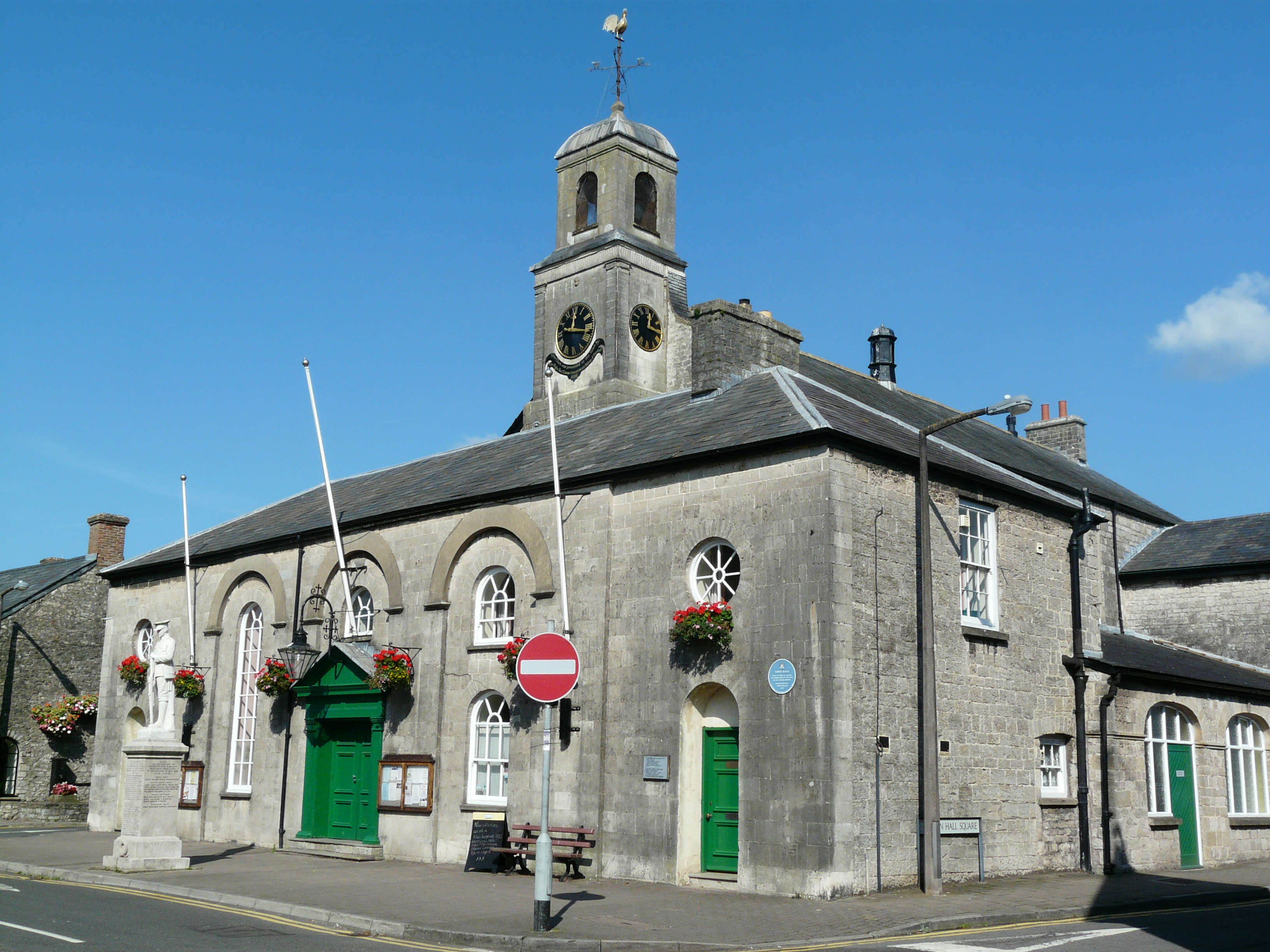 Town Hall, Cowbridge, Vale of Glamorgan, Wales Wikidata has entry Q17744183 with data related to this building.